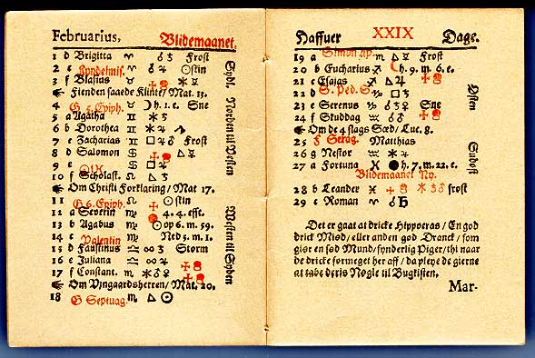 Image of the first book ever published in Norway, the almanac (nn/nb) Allmanach paa det aar efter Jesu Christi Fødsel 1644 (nn/nb), published by Tyge Nielssøn (nn/nb) in 1644 (nn/nb).